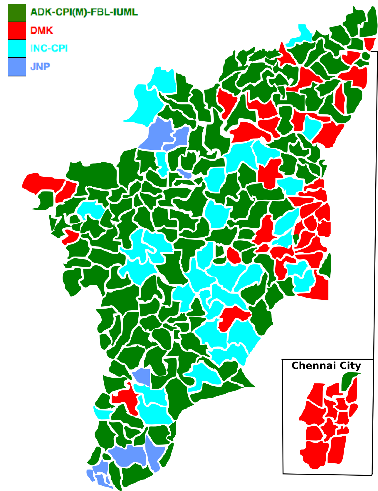 made election map using borders from ECI website using Inkscape.